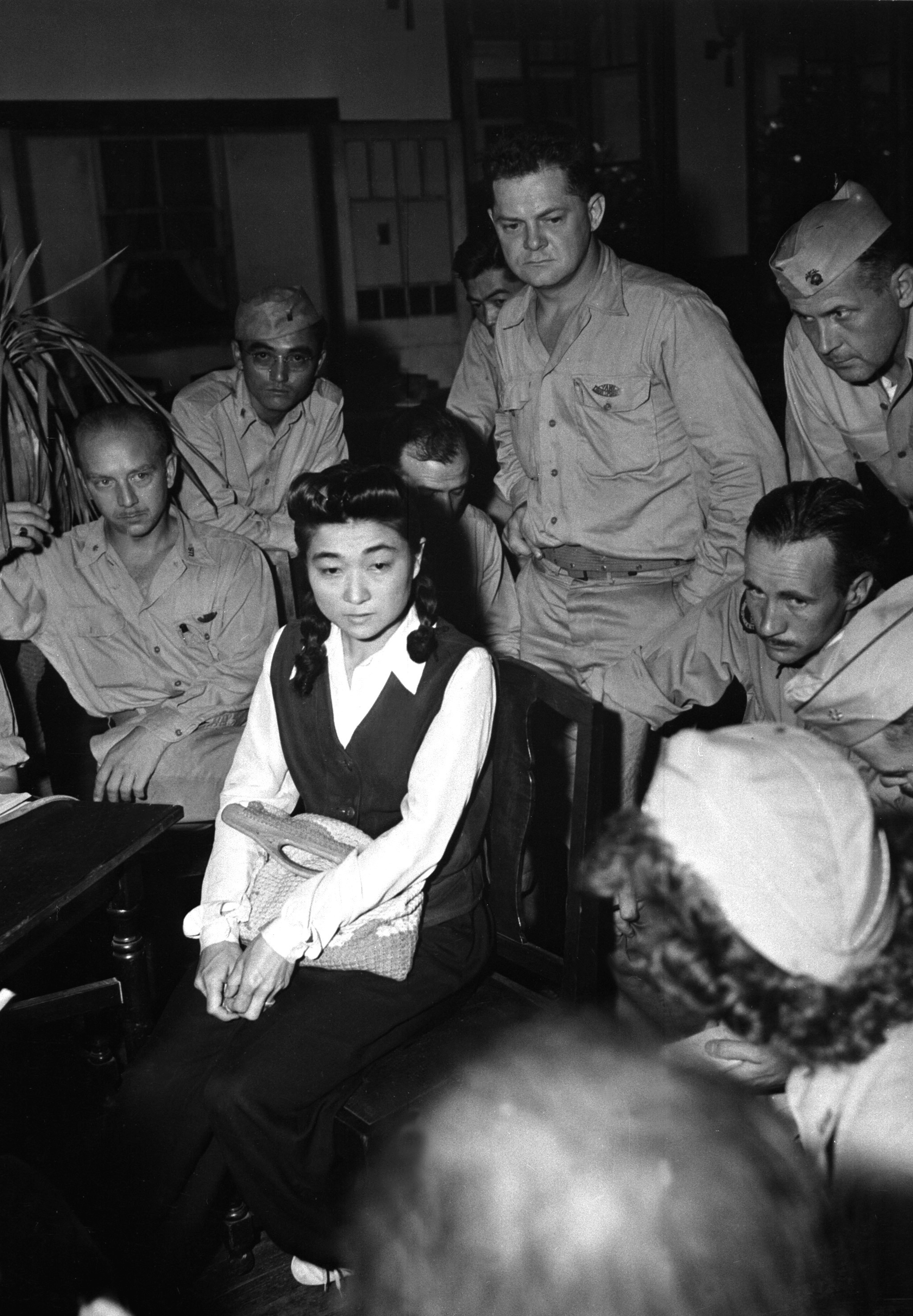 Correspondents interview "Tokyo Rose" Iva Toguri, American-born Japanese. September 1945. (Navy) Exact Date Shot Unknown NARA FILE #: 080-G-490488 WAR & CONFLICT BOOK #: 1308